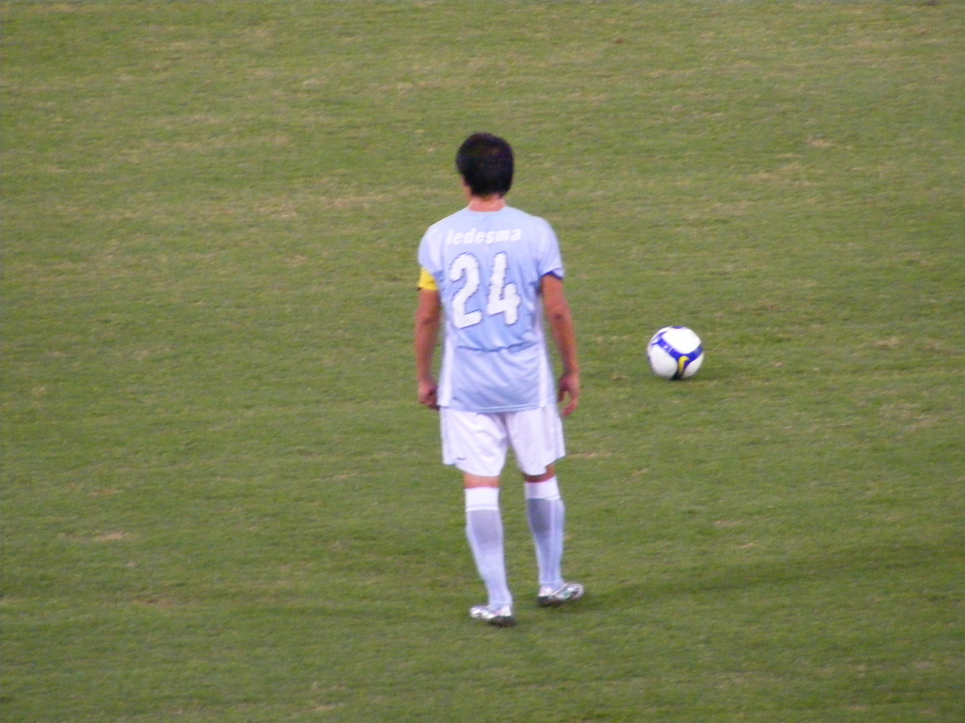 Cristian Ledesma against Fiorentina